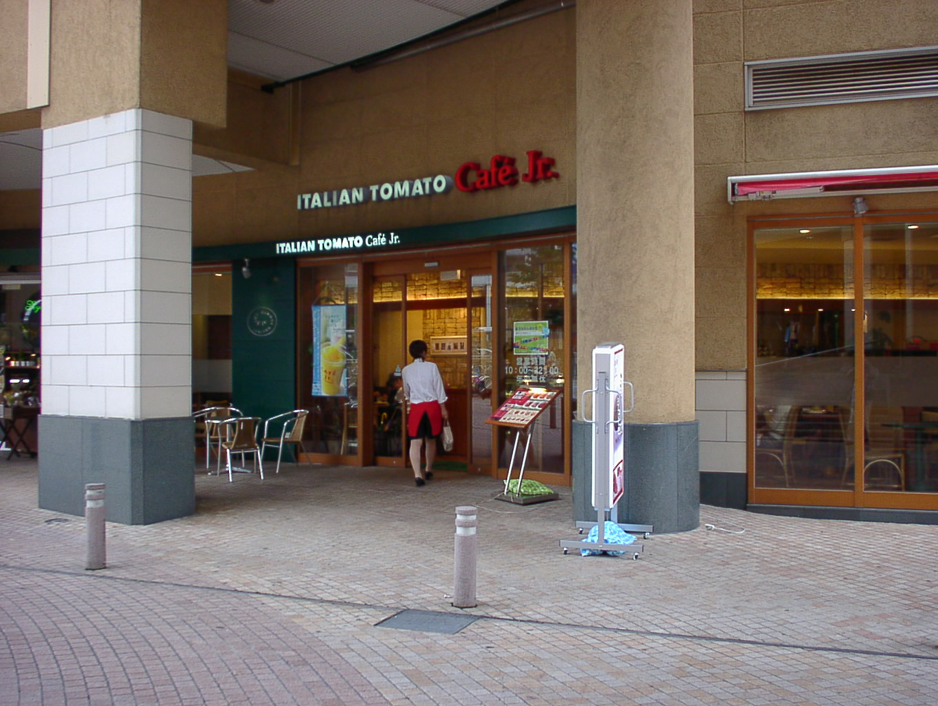 Zaza City Hamamatsu